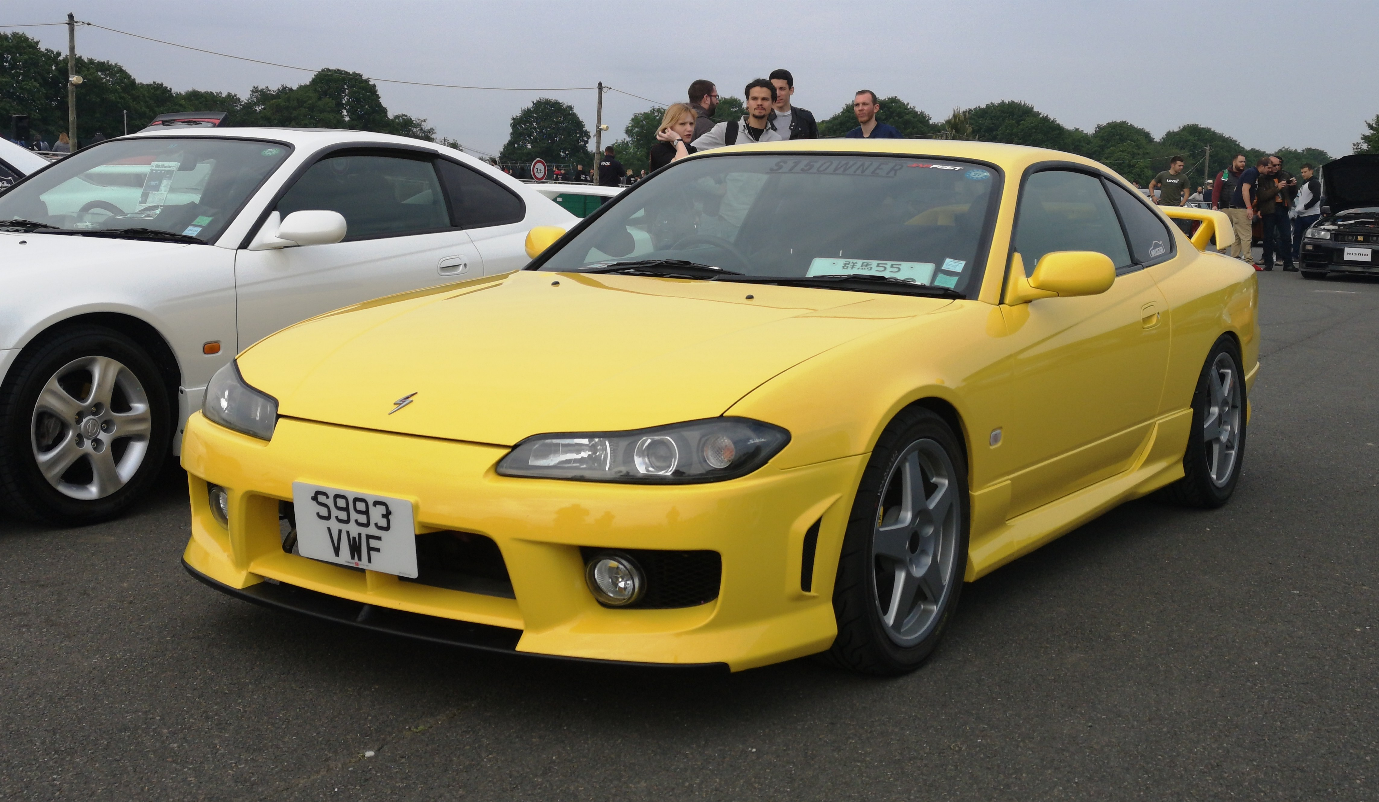 1999 Nissan Silvia Spec R (2.0 200 hp) at Montlhery